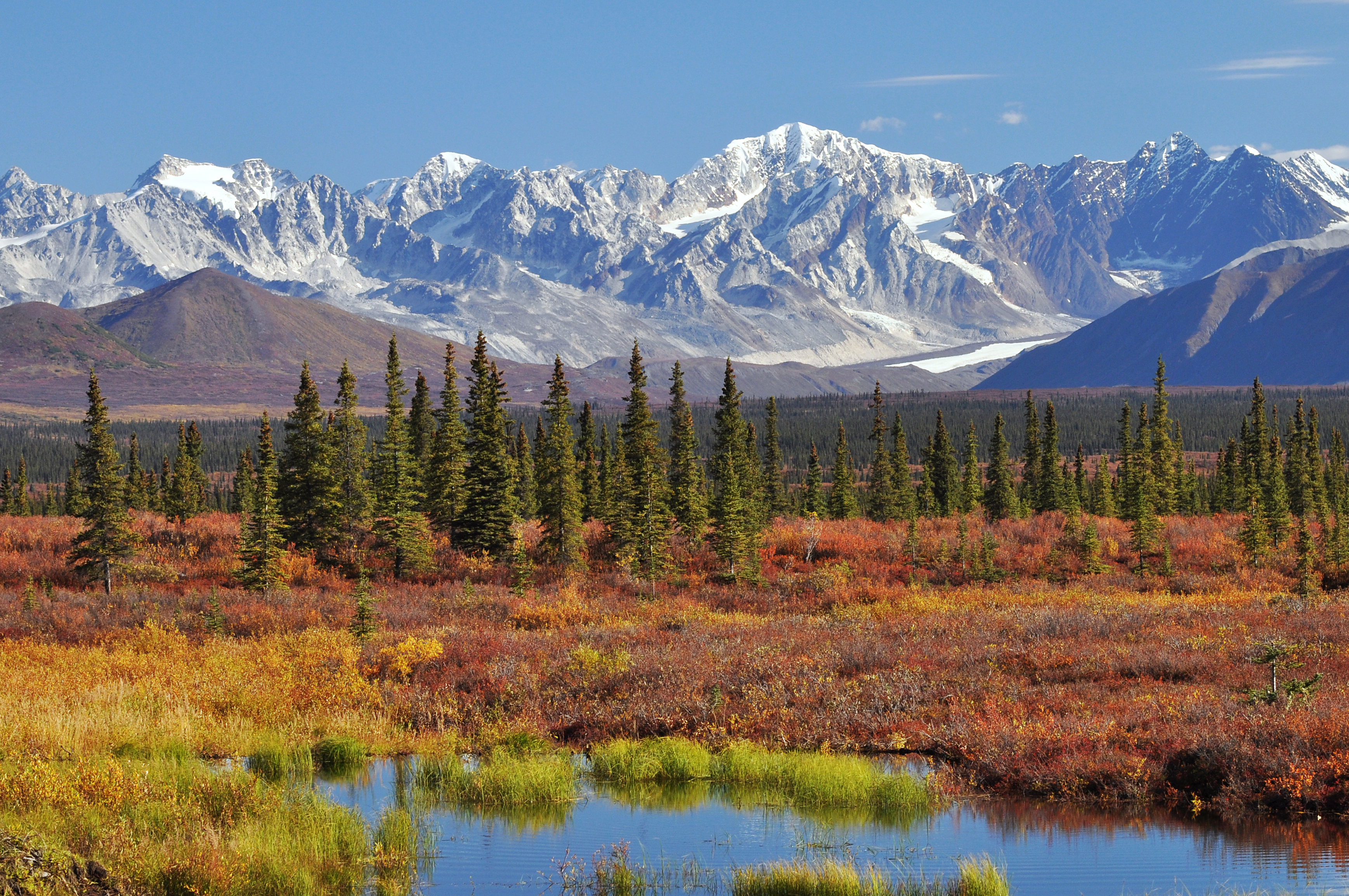 Landscape off of the Denali Highway, shot over the Monahan Flat toward the peaks of the eastern Alaska Range.